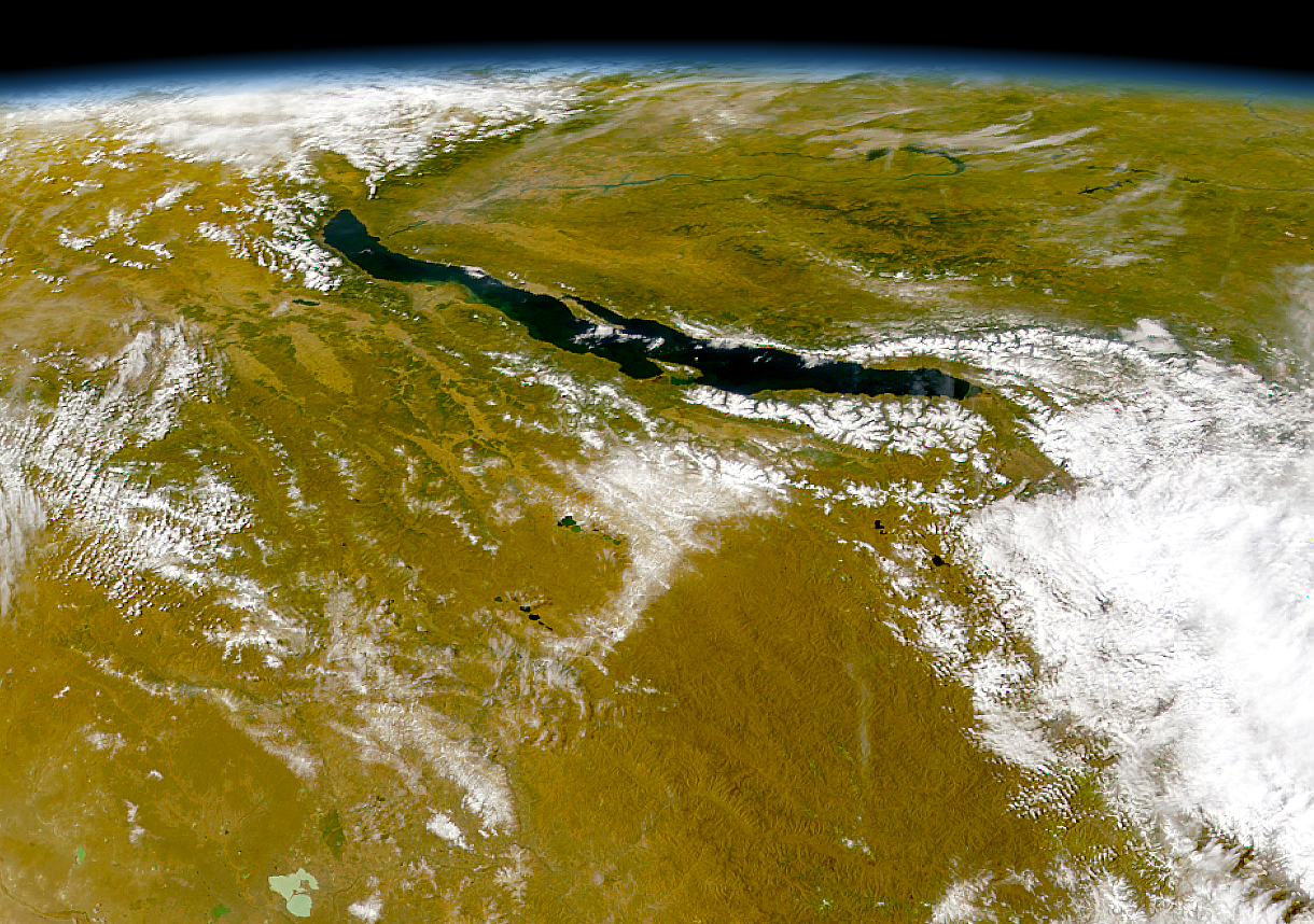 Lake Baikal Sensor OrbView-2/SeaWiFS Visible Earth v1 ID 3678